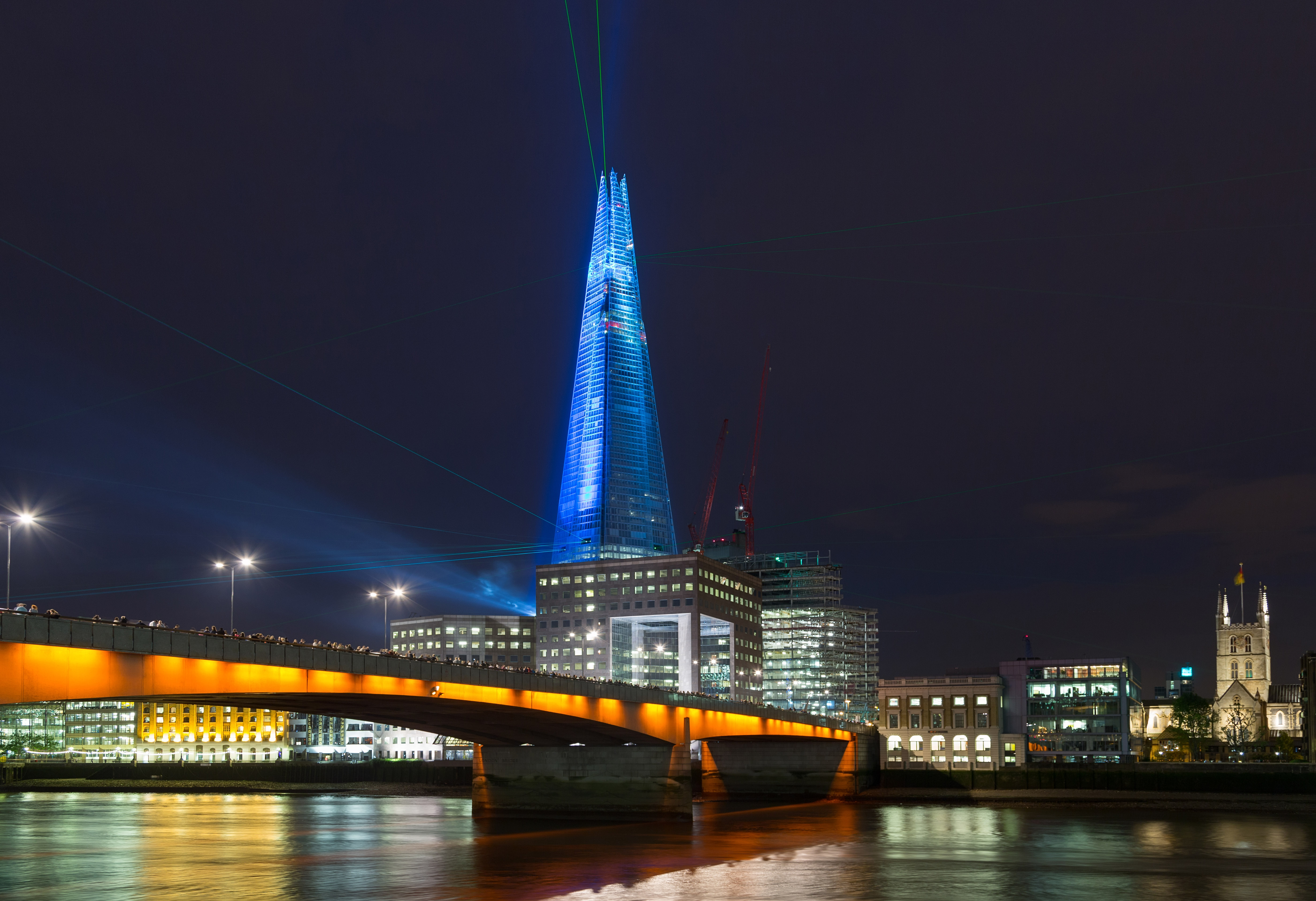 A view of The Shard during the opening light show from the northern bank of the Thames, looking south-east across London Bridge.